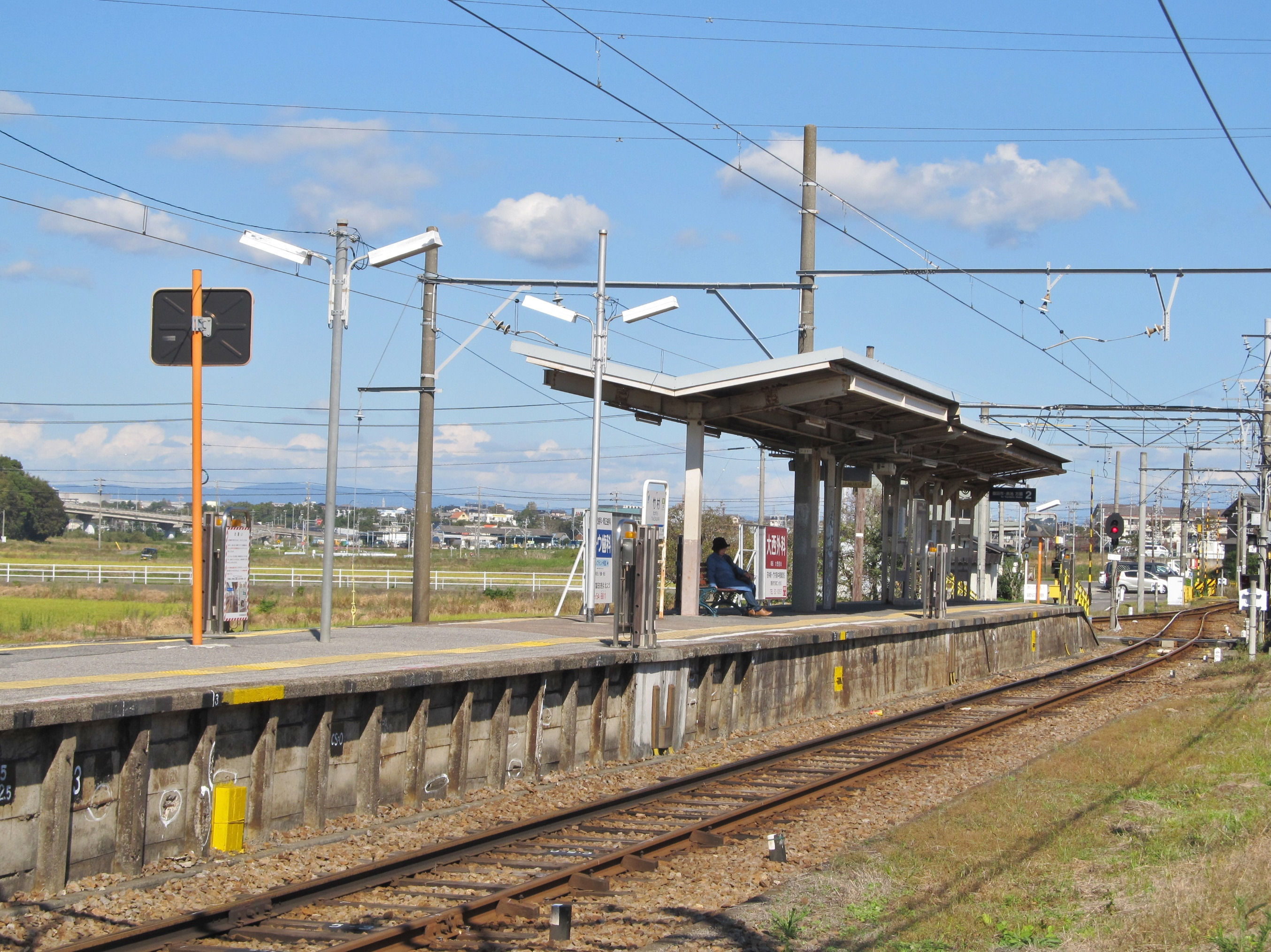 Nagoya Railroad Mikawa Line Takemura Station Platform